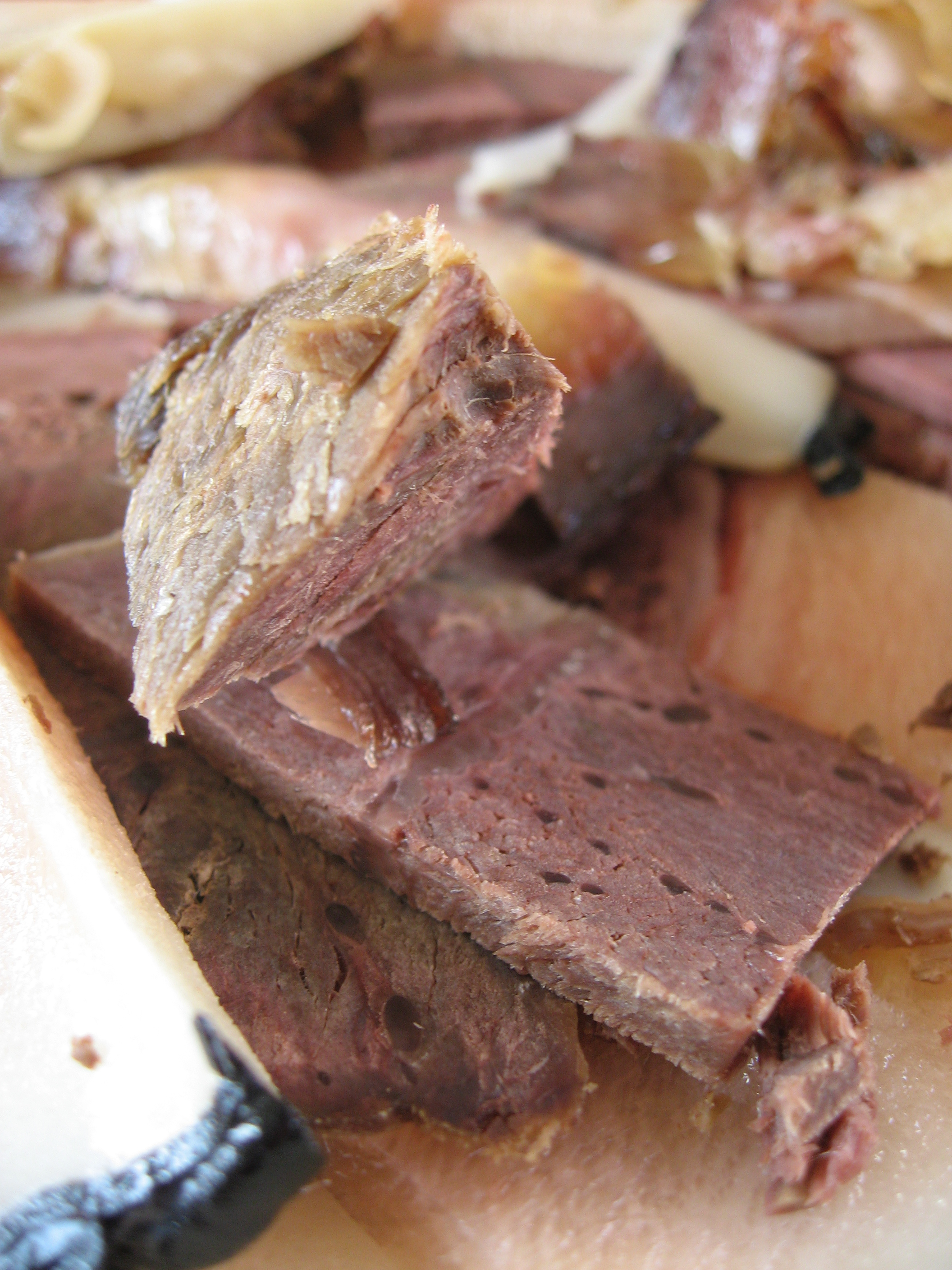 Whale meat at Korea.